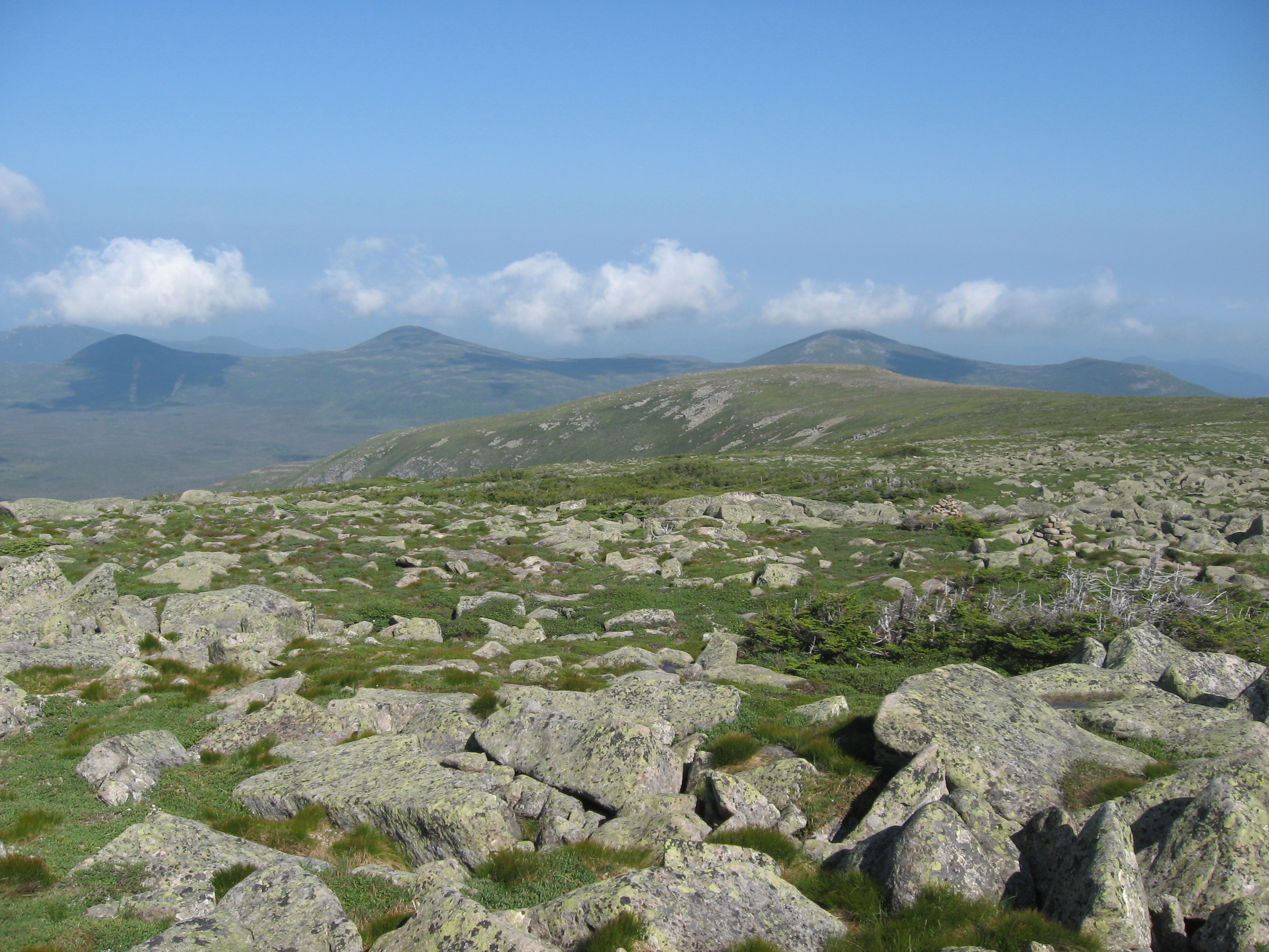 Looking northwest from Hamlin Peak of Mount Katahdin in Baxter State Park, Maine